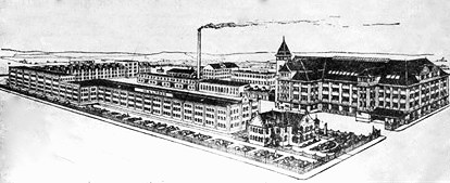 Contemporary drawing in an ad by shoe factory M. & L. Hess of Erfurt in Thuringia, Germany. It shows one of the factories of the company. M. & L. Hess stands for the two founders Maier Hess and Louis Hess. The latter died in 1915.